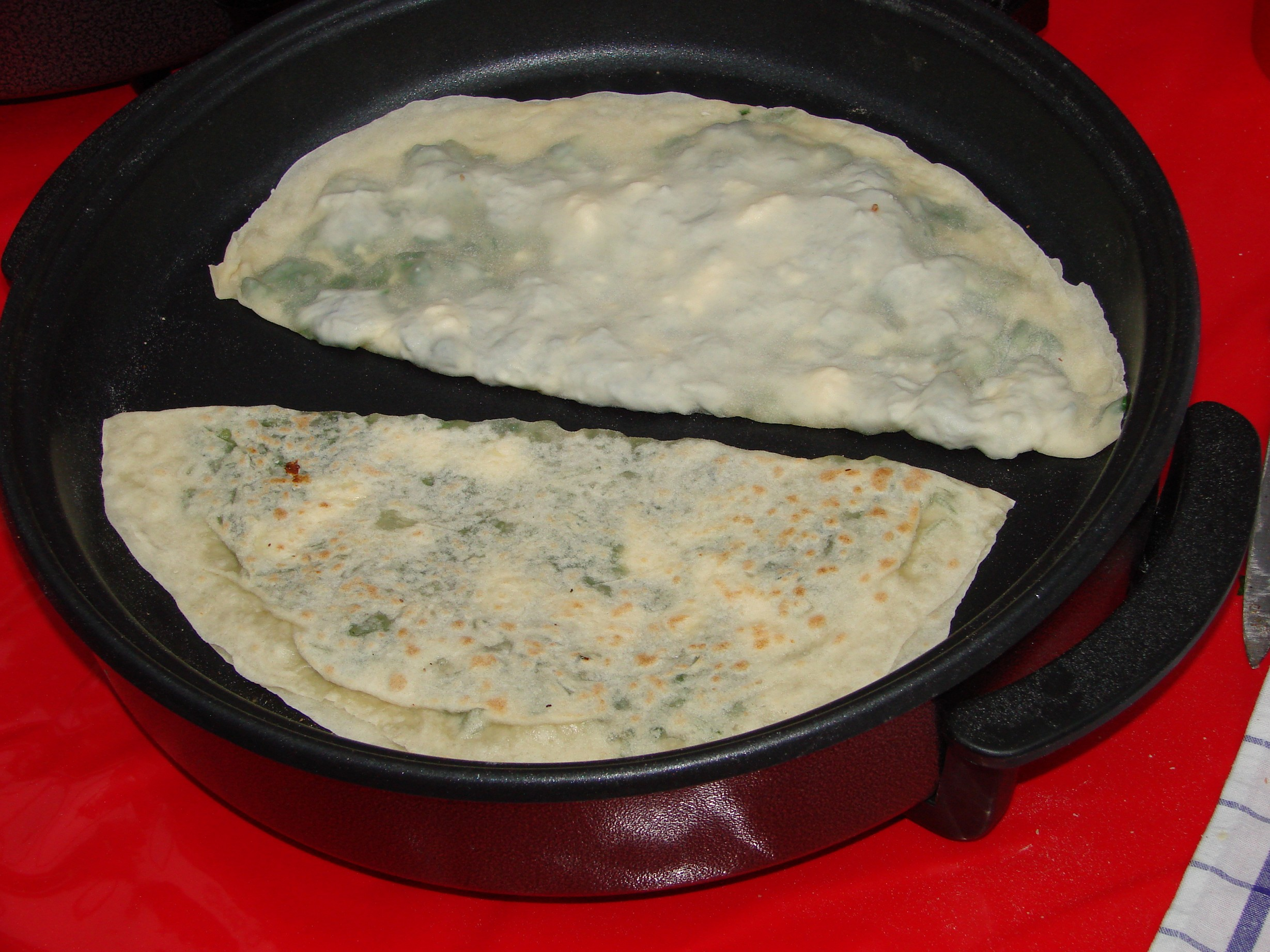 Gözleme, Turkish Specialty